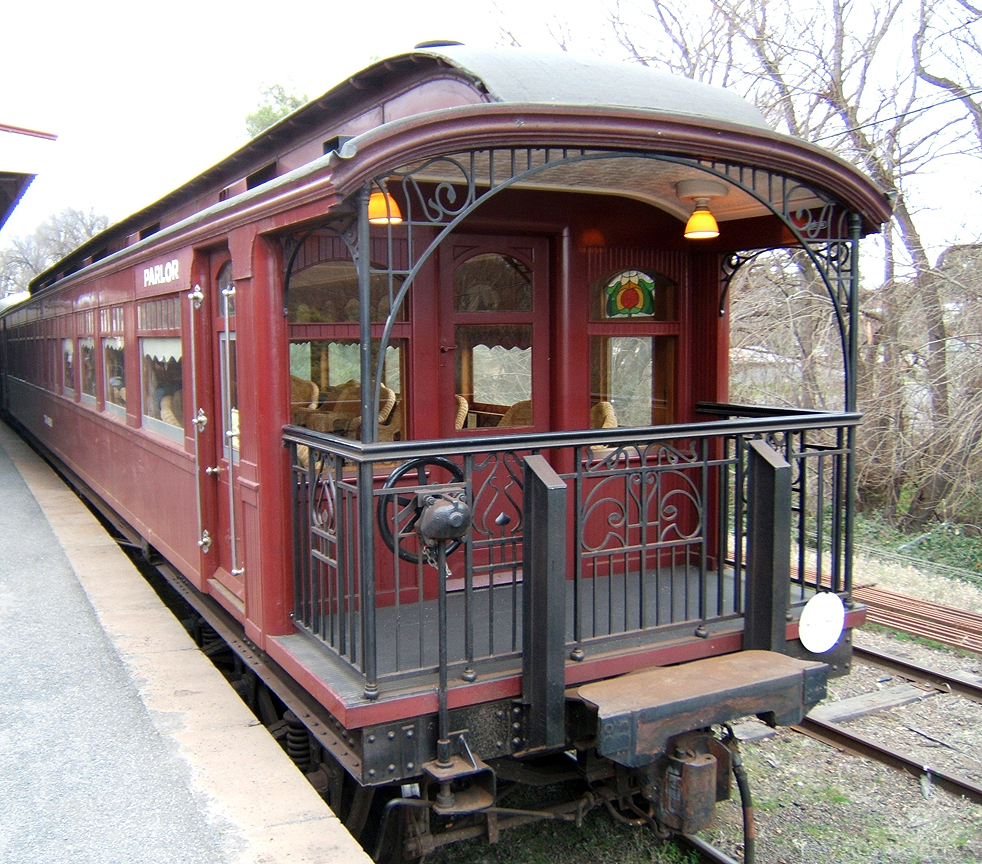 Parlor/Observation car on the Victorian Goldfields Railway.